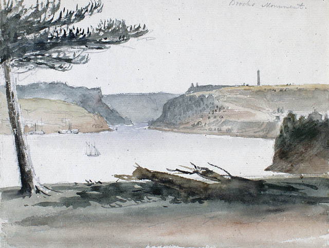 Brock's Monument, Queenston Heights, watercolour on wove paper, 16.000 x 21.500 cm